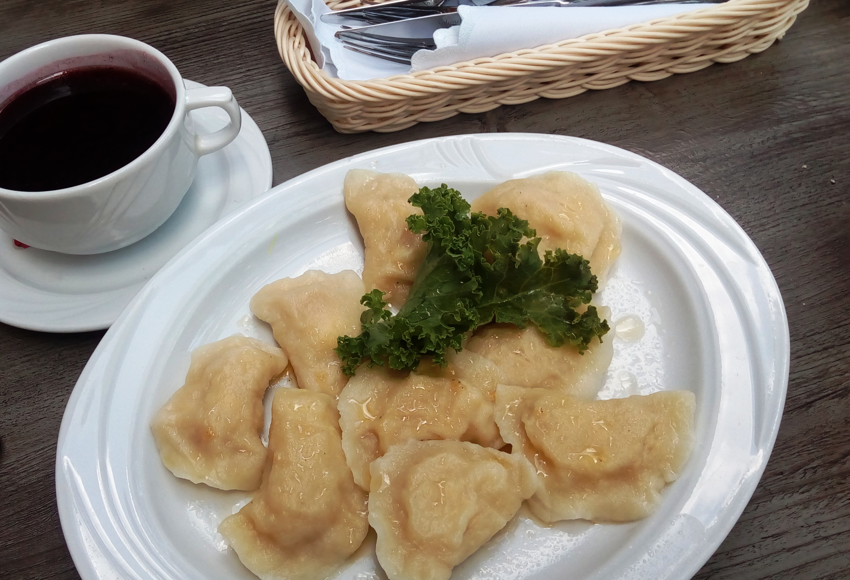 Польські вареники (пироги)